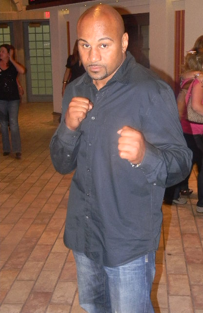 Sports writer photographer Robert Brizel captures boxer Ray Oliviera at a fight card at Foxwoods, October 2, 2010.